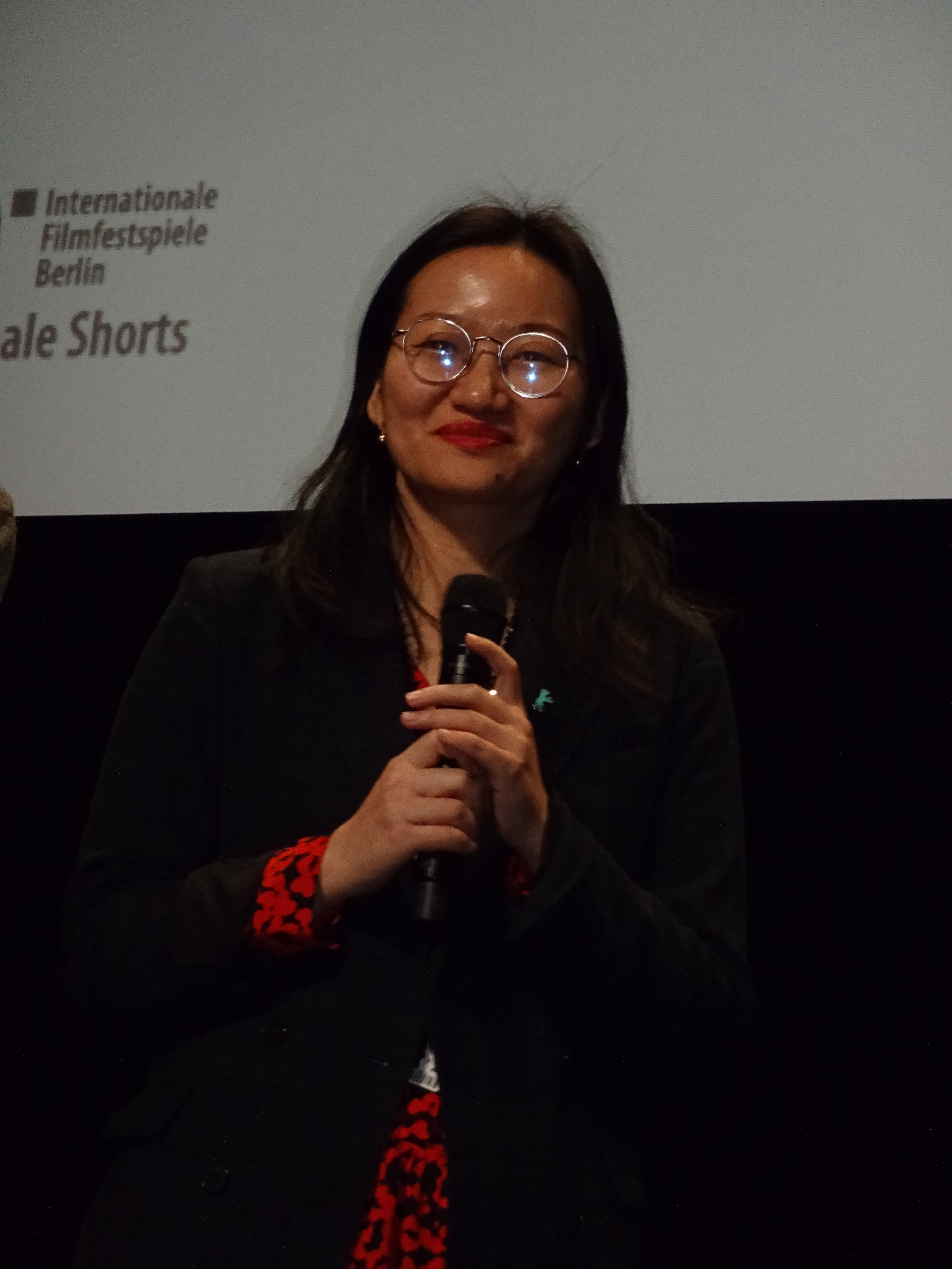 Film editor Xi Feng at a Q & A at Berlinale 2020, Berlin